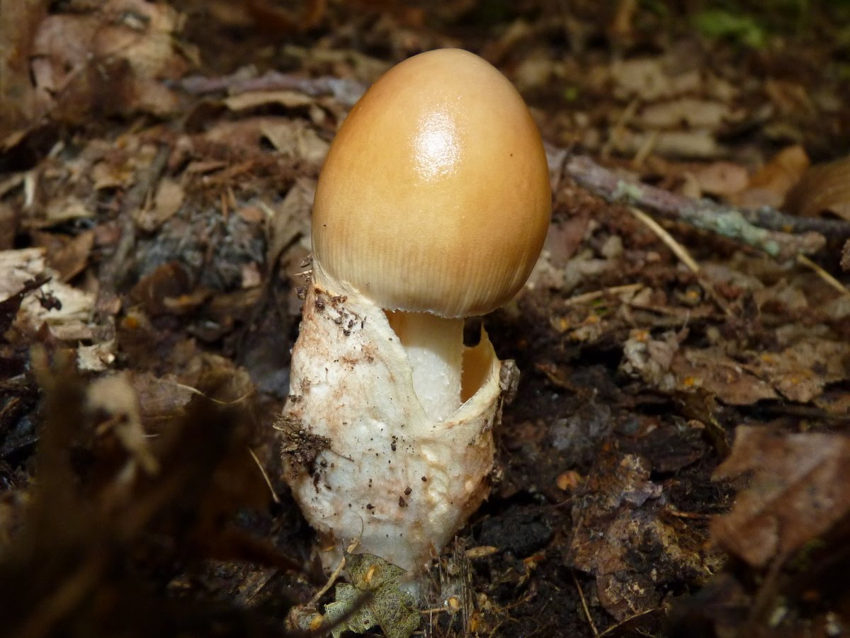 Found growing amid Birch and Holly in East Sussex